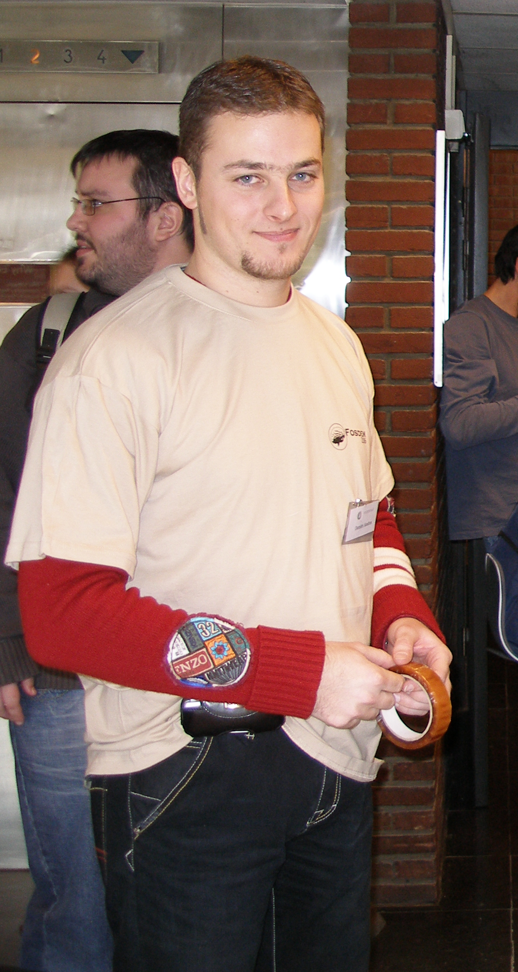 Damien Sandras